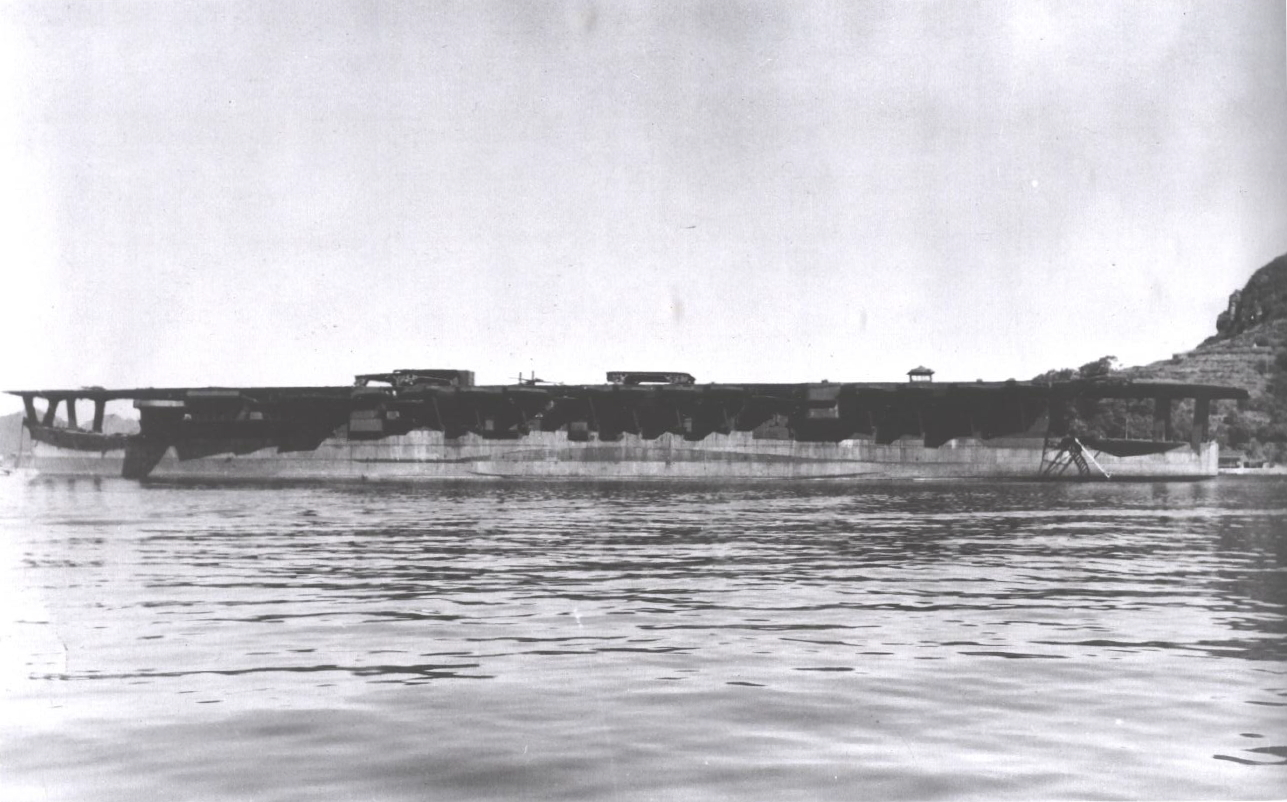 The incomplete aircraft carrier Ibuki at Sasebo